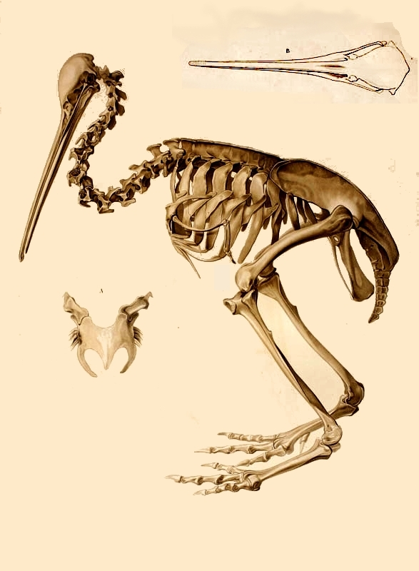 Brown Kiwi skeleton, Apteryx australis